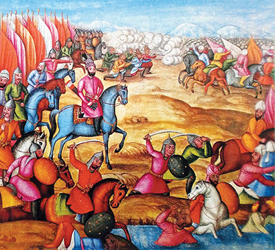 painting of the battle of zarghan